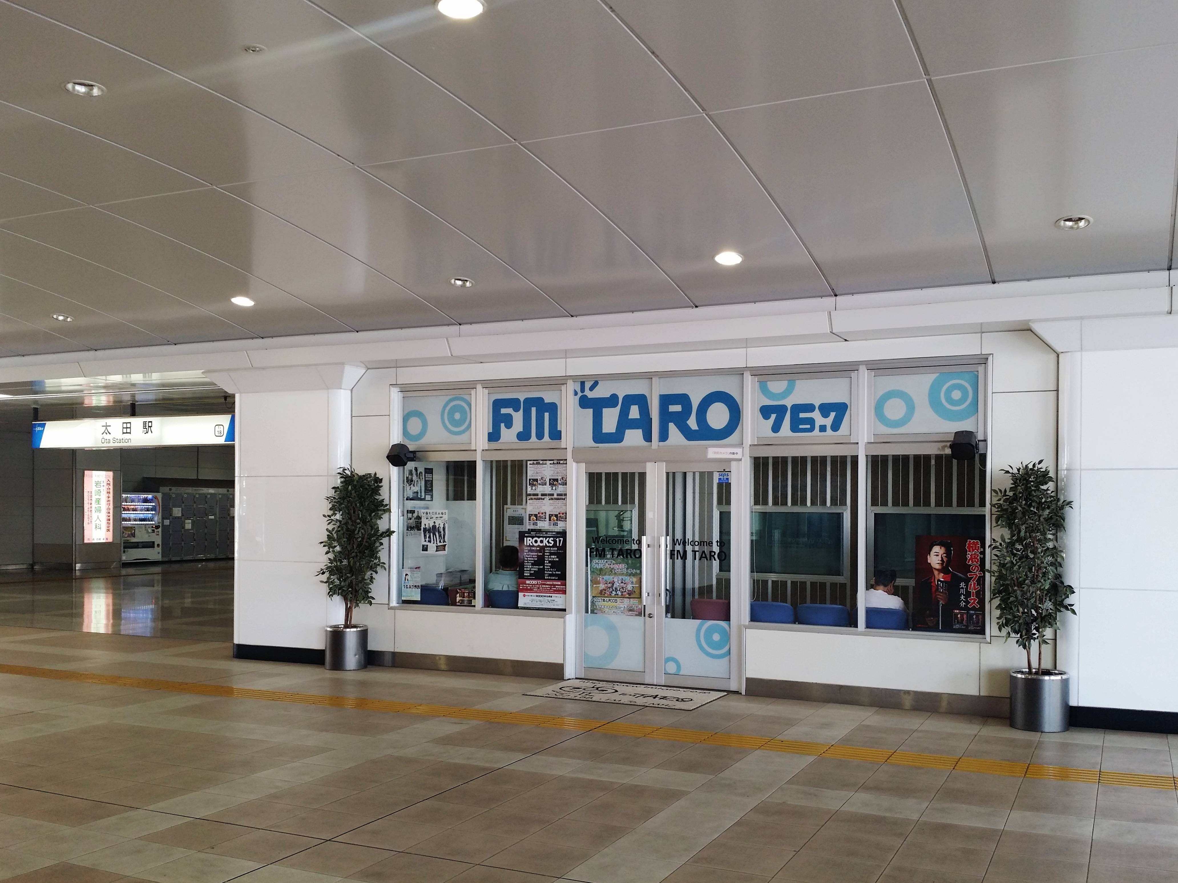 FM TARO (Ōta Station).